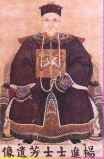 Yang Shifang